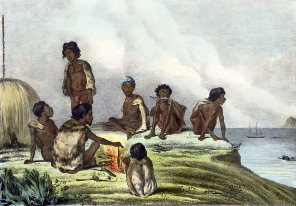 Depiction of aborigines at King Georges Sound, Western Australia, hand coloured lithograph, 22.7 x 32.3 cm